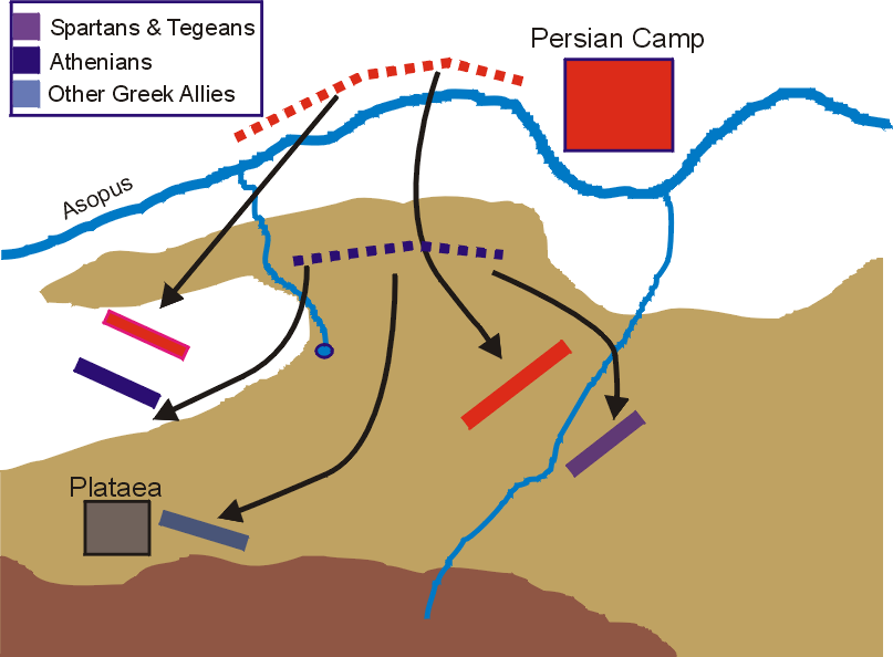 Sketch map, and diagram of the later movements in the Battle of Plataea (479 BC). After Tom Holland (2005).